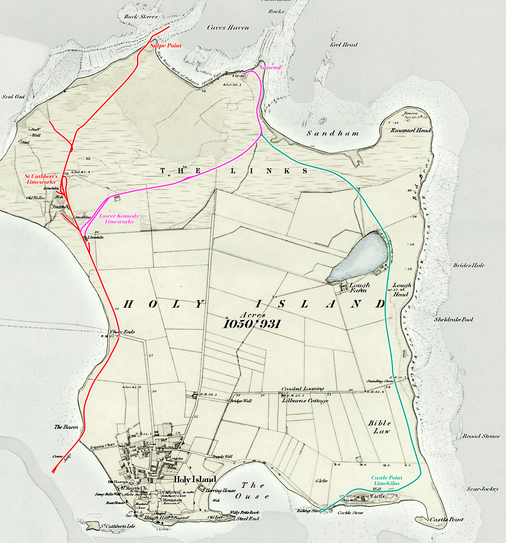 Course of the waggonways on Holy Island